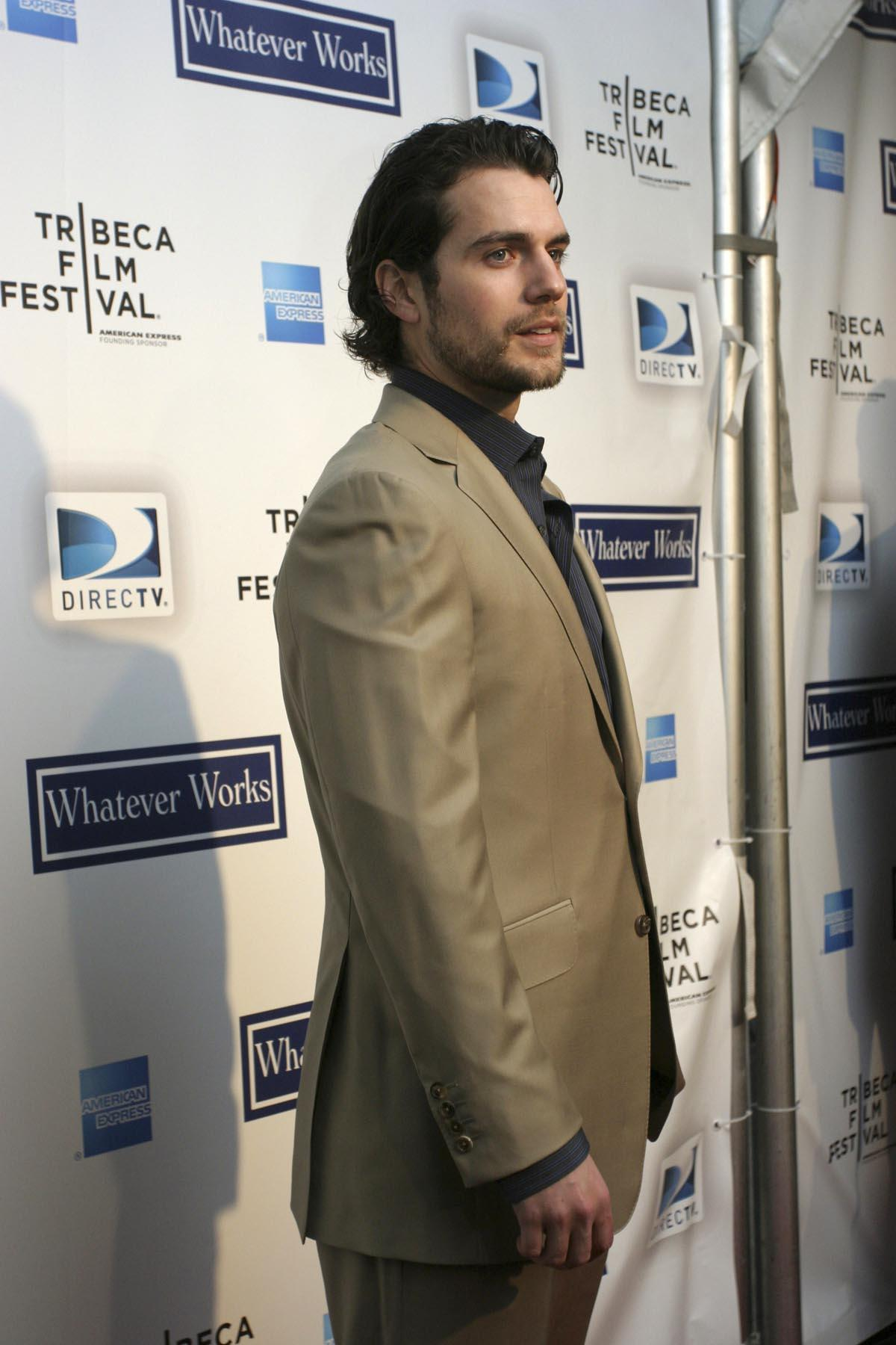 Actor Henry Cavill – Tribeca Film Festival "Whatever Works" Premiere.